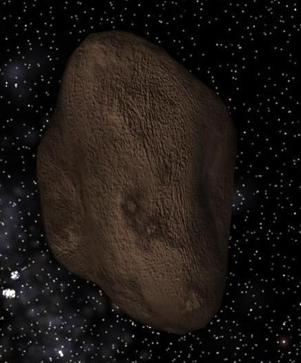 Quaoar's moon Weywot as simulated by Celestia. The shaping and surface details are fictional.